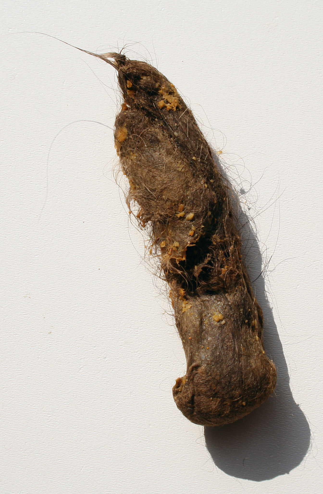 A hairball from a Maine Coon cat (about 4 in/10 cm long). Photo by Derek Jensen (Tysto), 2005-December-22